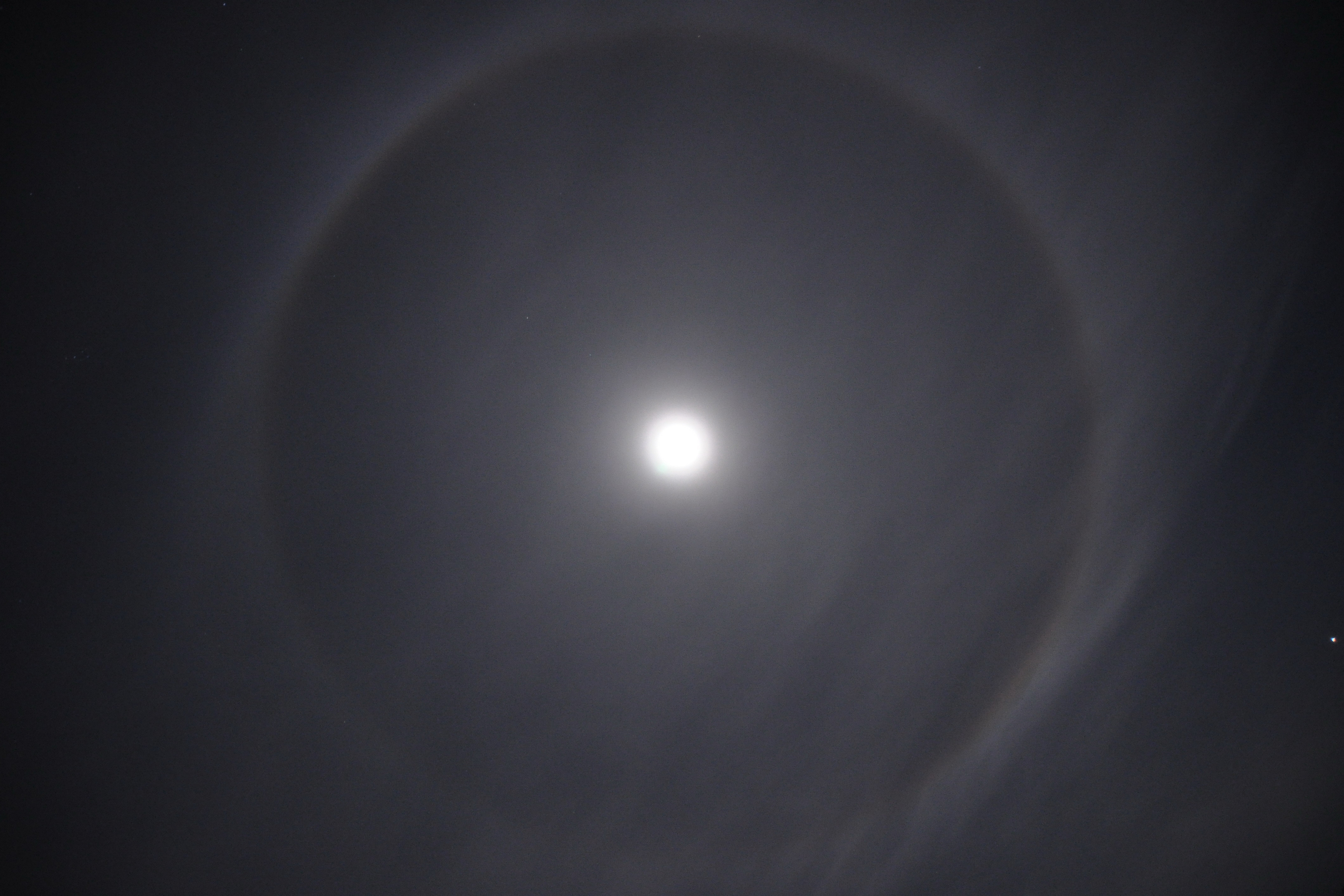 Moon halo (optical phenomenon), Graz, Austria, 2010-10-23